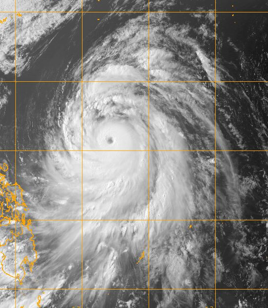 Satellite image of Typhoon RAMMASUN on May 10